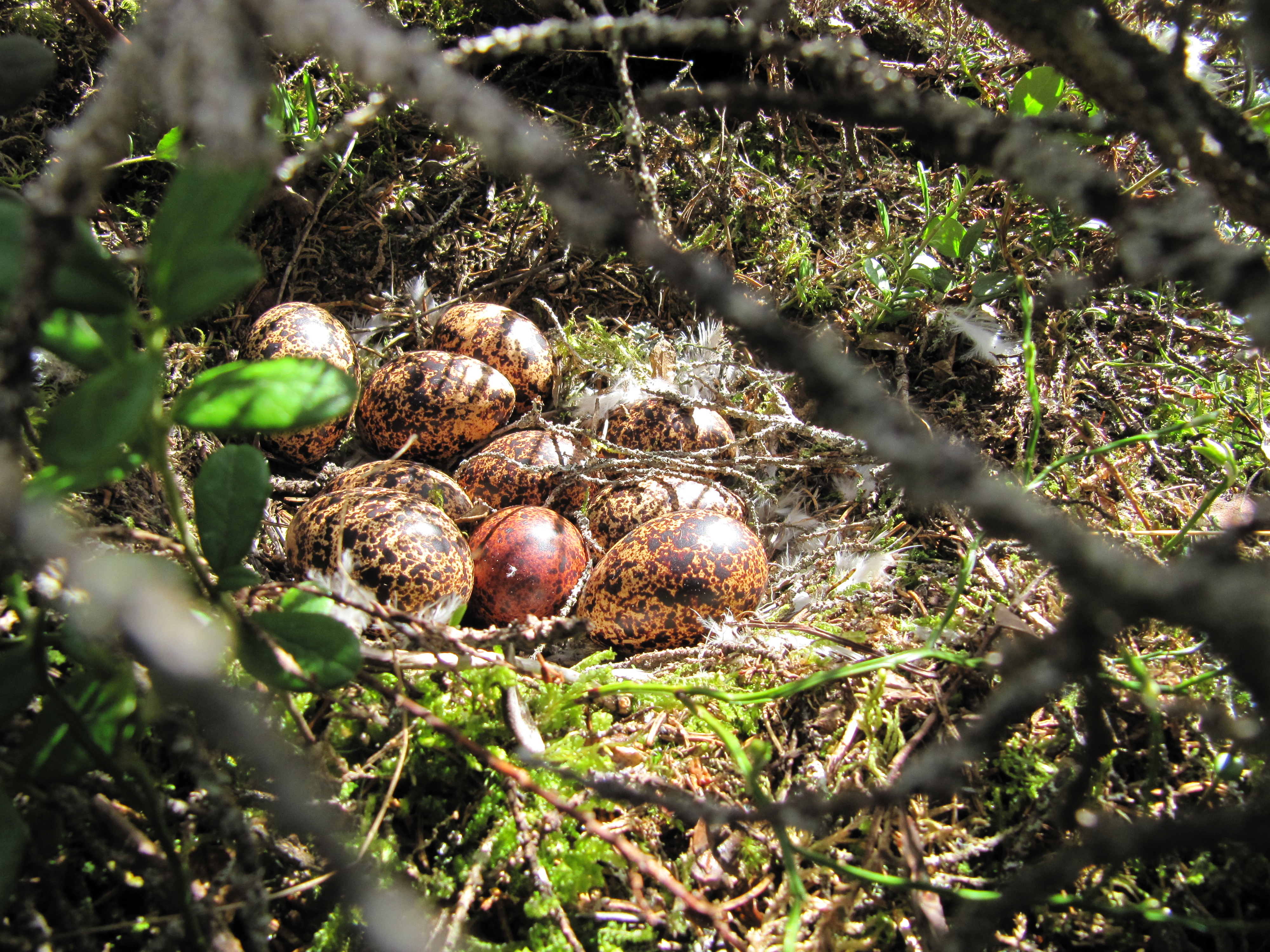 Photo of Lagopus lagopus nest in Salla, Finland